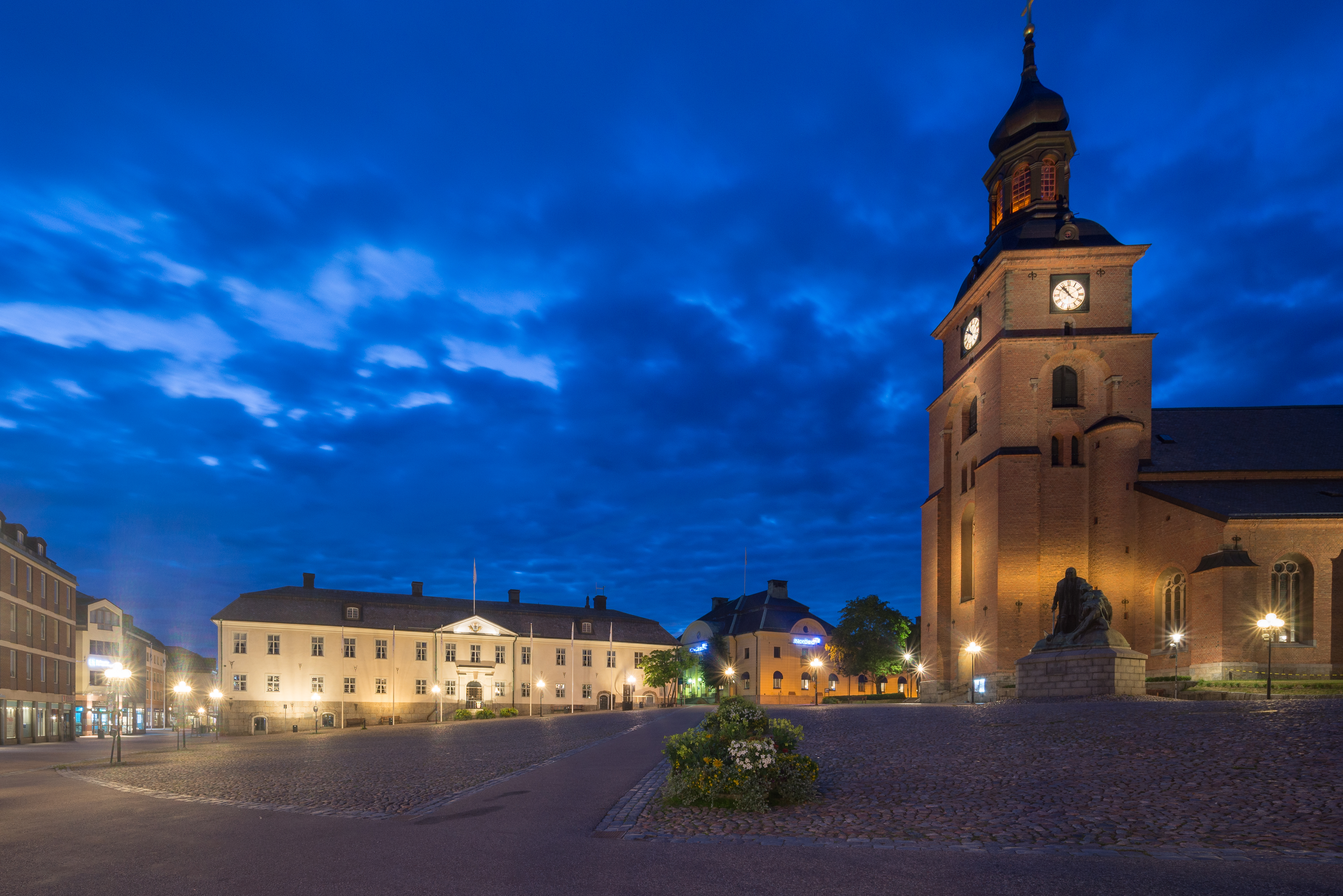 Kristine Church is the parish church of Falu Kristine in the Diocese of Västerås of the Church of Sweden in Falun.